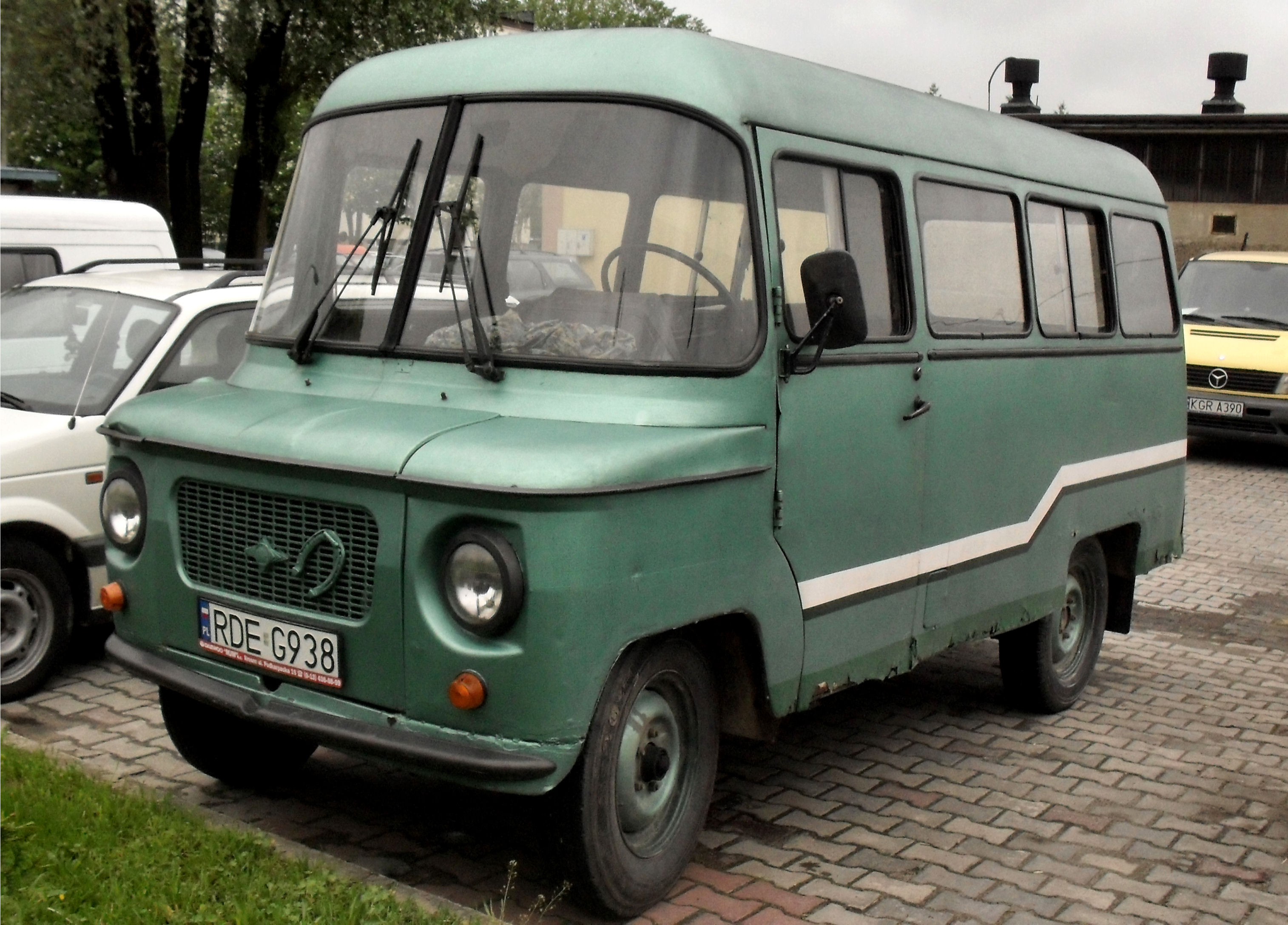 ZSD Nysa seen in Jasło, Poland.